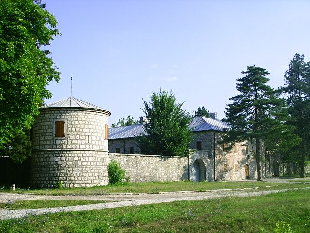 Biljarda Residence of the montenegrin prince in Cetinje, Montenegro